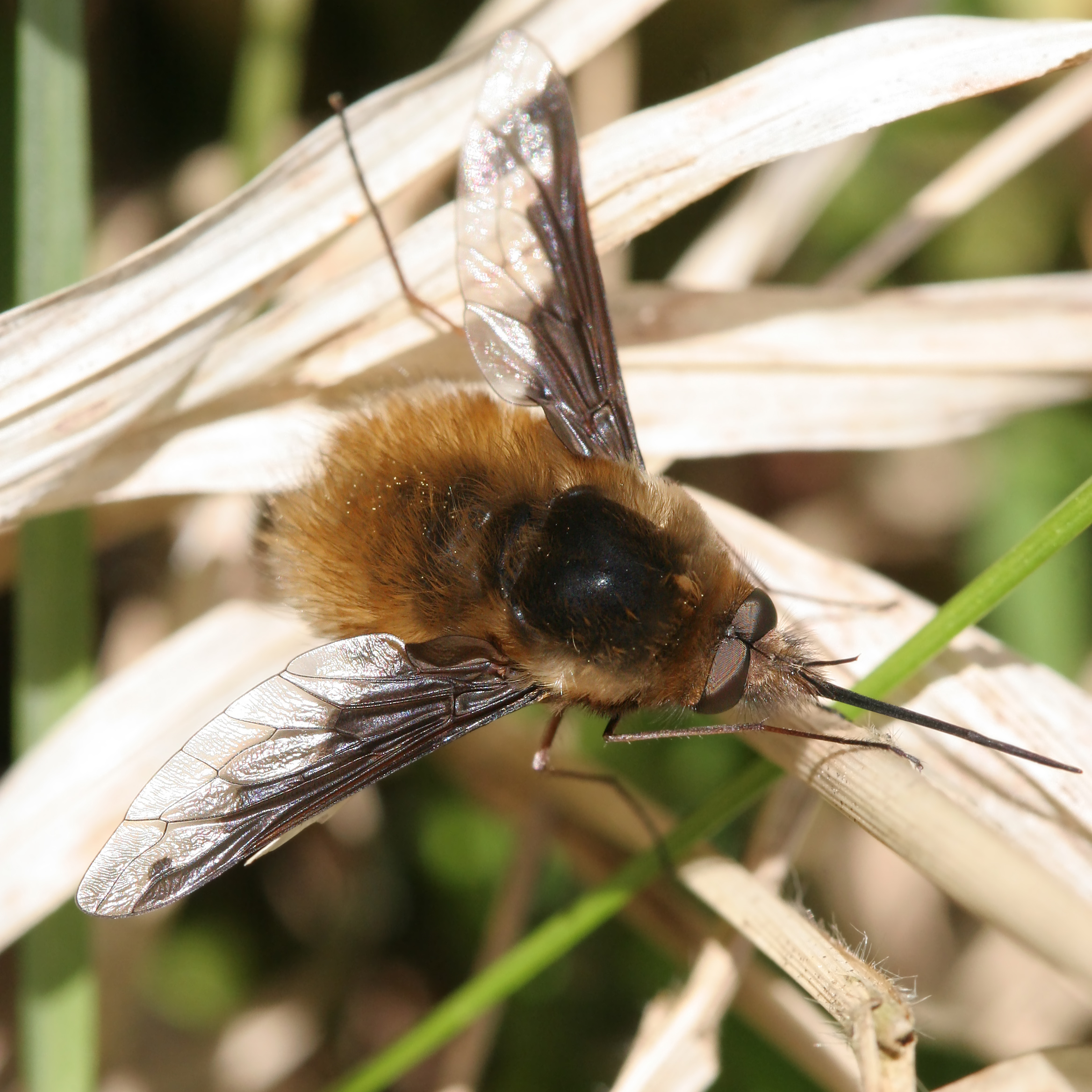 Bee-fly (Bombylius major) in Bensheim (Germany)